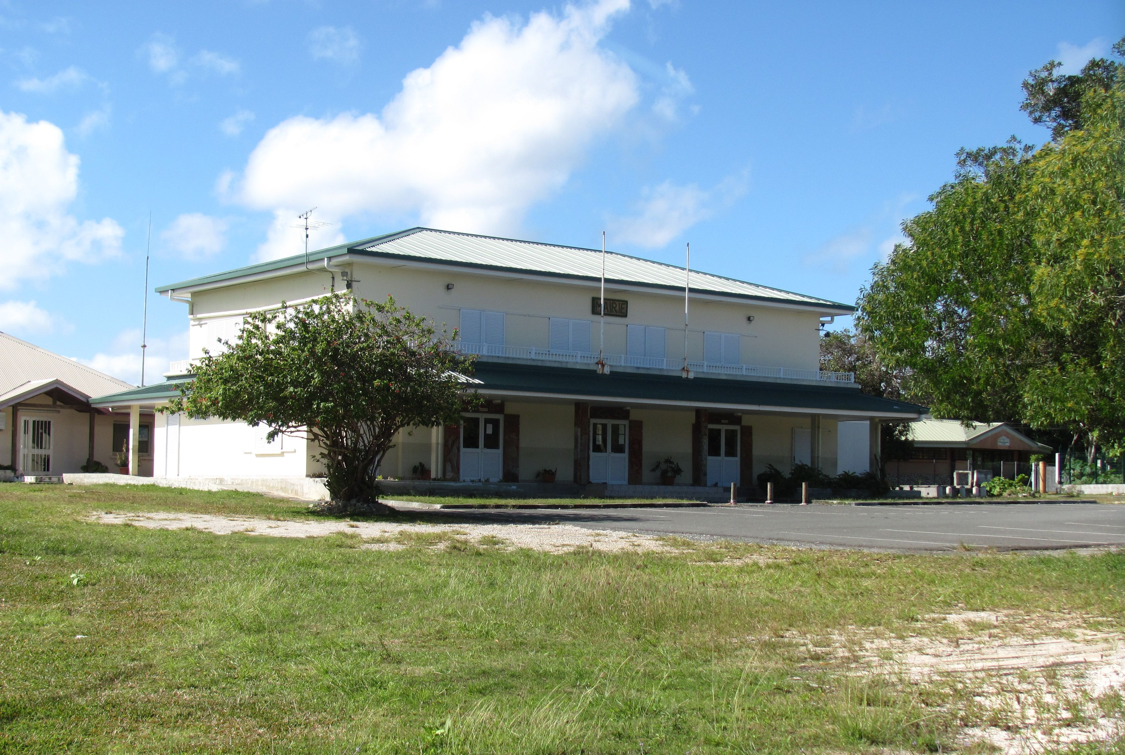 Town Hall, Wadrilla, Ouvéa, New Caledonia